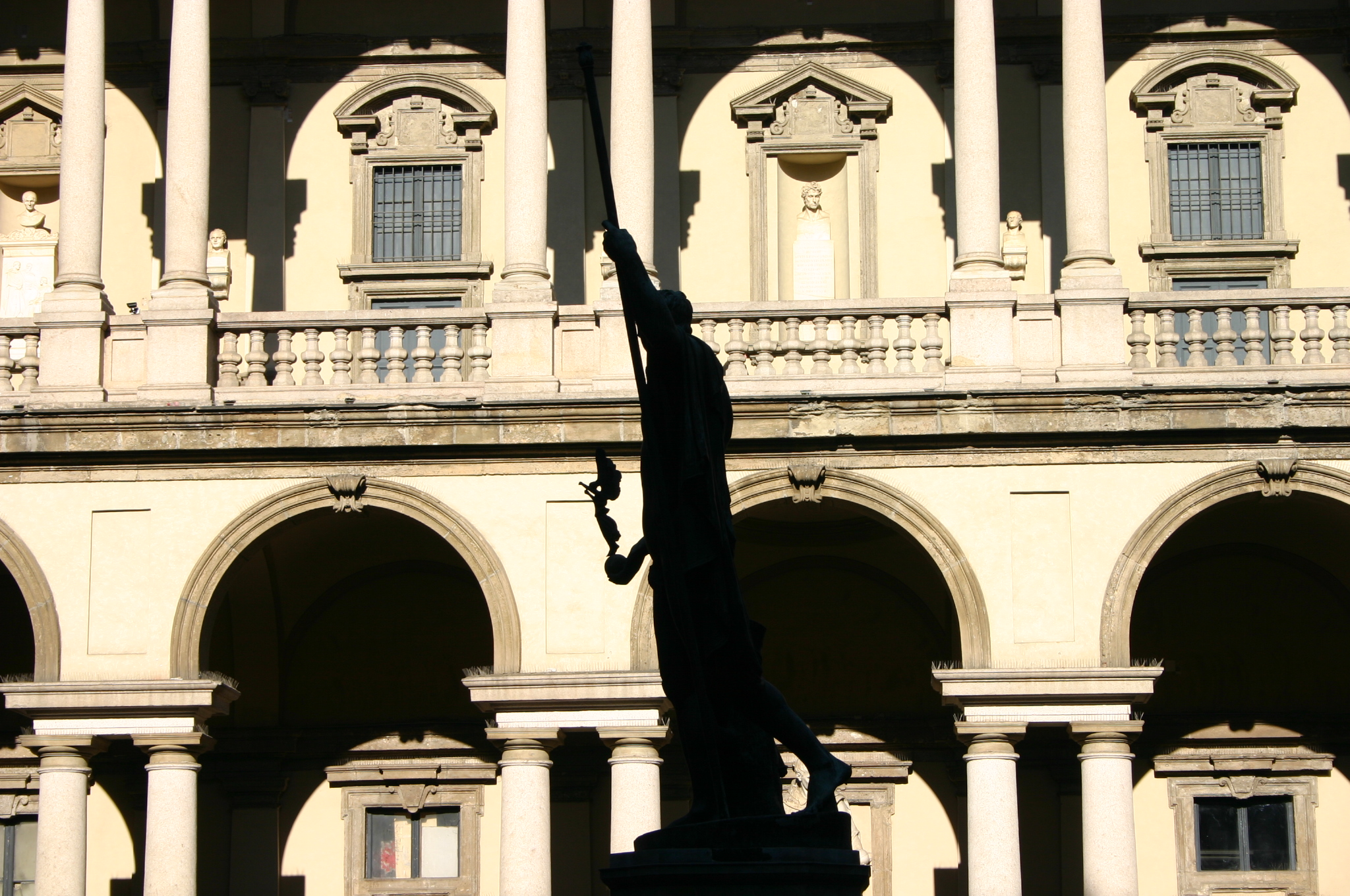 The 17th century courtyard in the Palace of Brera at Milan. Picture by Giovanni Dall'Orto, January 19 2007.